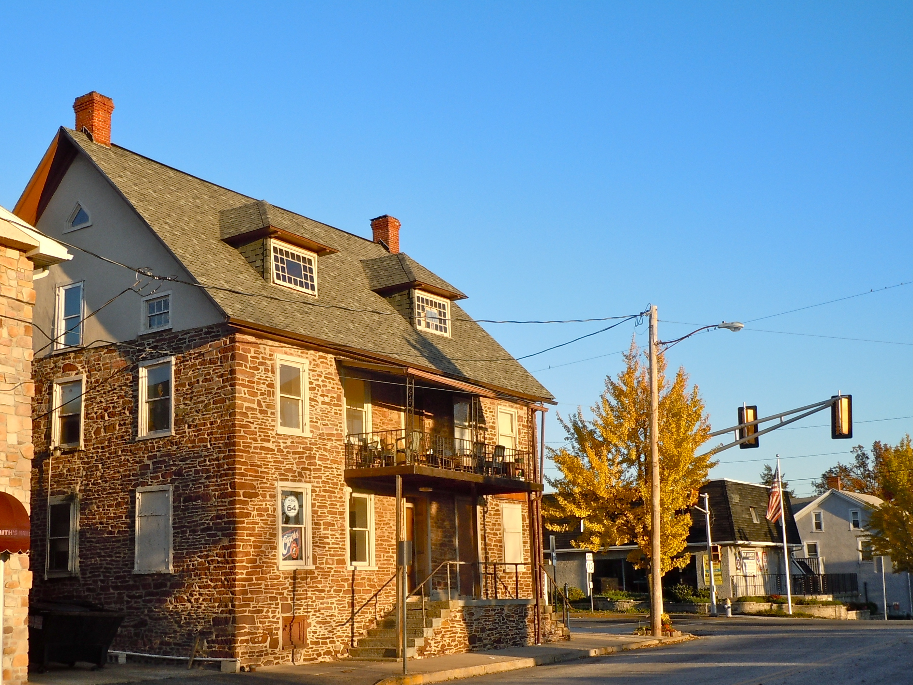 House at Front and Broad Streets in the Souderton Historic District, on the NRHP since June 10, 2011. The historic district is roughly bounded by Railroad Avenue, East Broad Street, Noble Street, Spruce Alley, South Front Street, and Washington Avenue in the historic center of Souderton, Montgomery County, Pennsylvania. This building is run as a tavern.